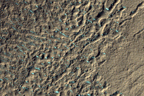 Frost in Debris Apron in Terra Cimmeria, as seen by hirise, under HiWish program. Location is 41 S and 116 E.